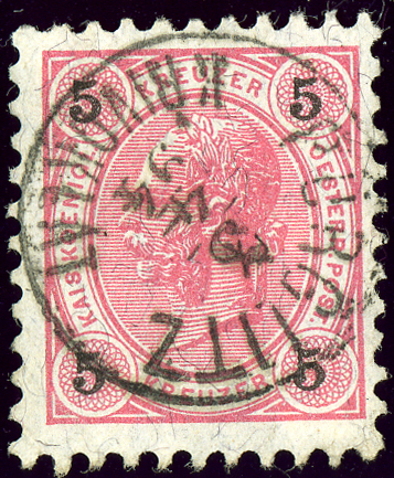 Austrian KK stamp, 5 kreuzer , bilingual cancelled PÜRGLITZ - KRIVOKLAT in 1894 (Bohemia)